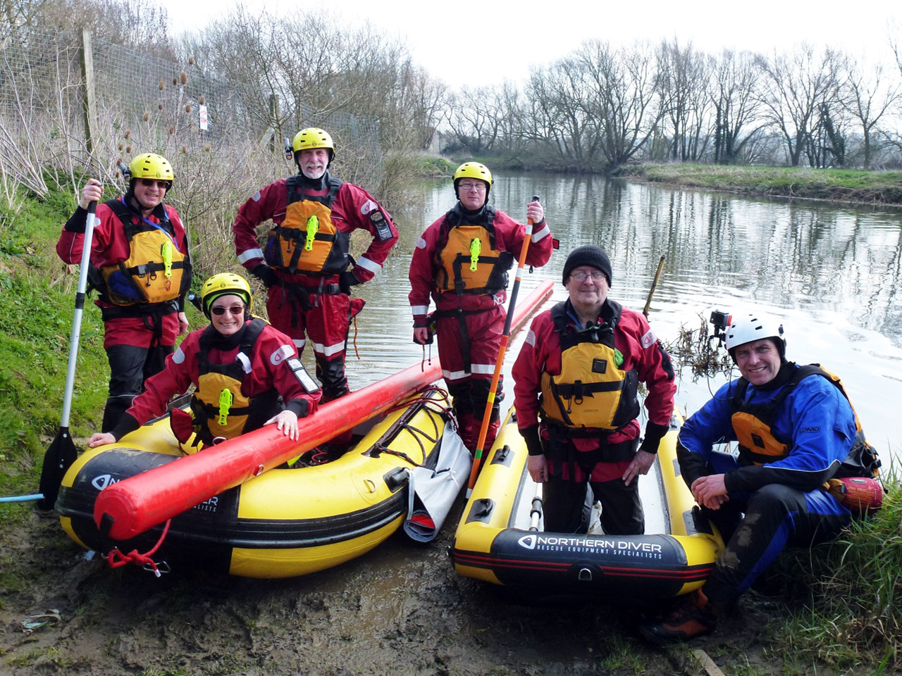 Volunteers at MVS Rushden in Northamptonshire.